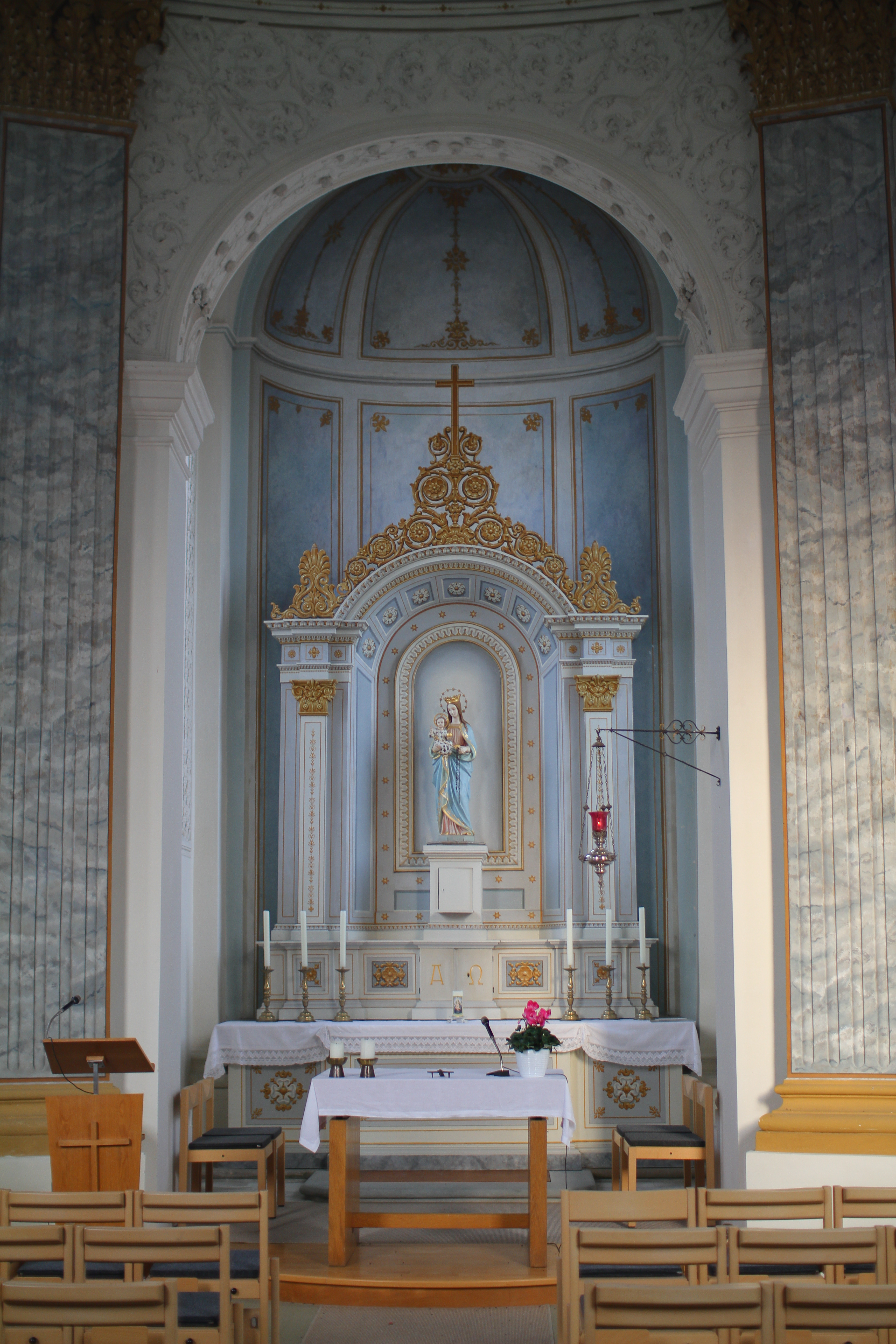 Stefansfeld-Kapelle in Stefansfeld nearby Salem at Lake Constance in the german District Baden-Württemberg